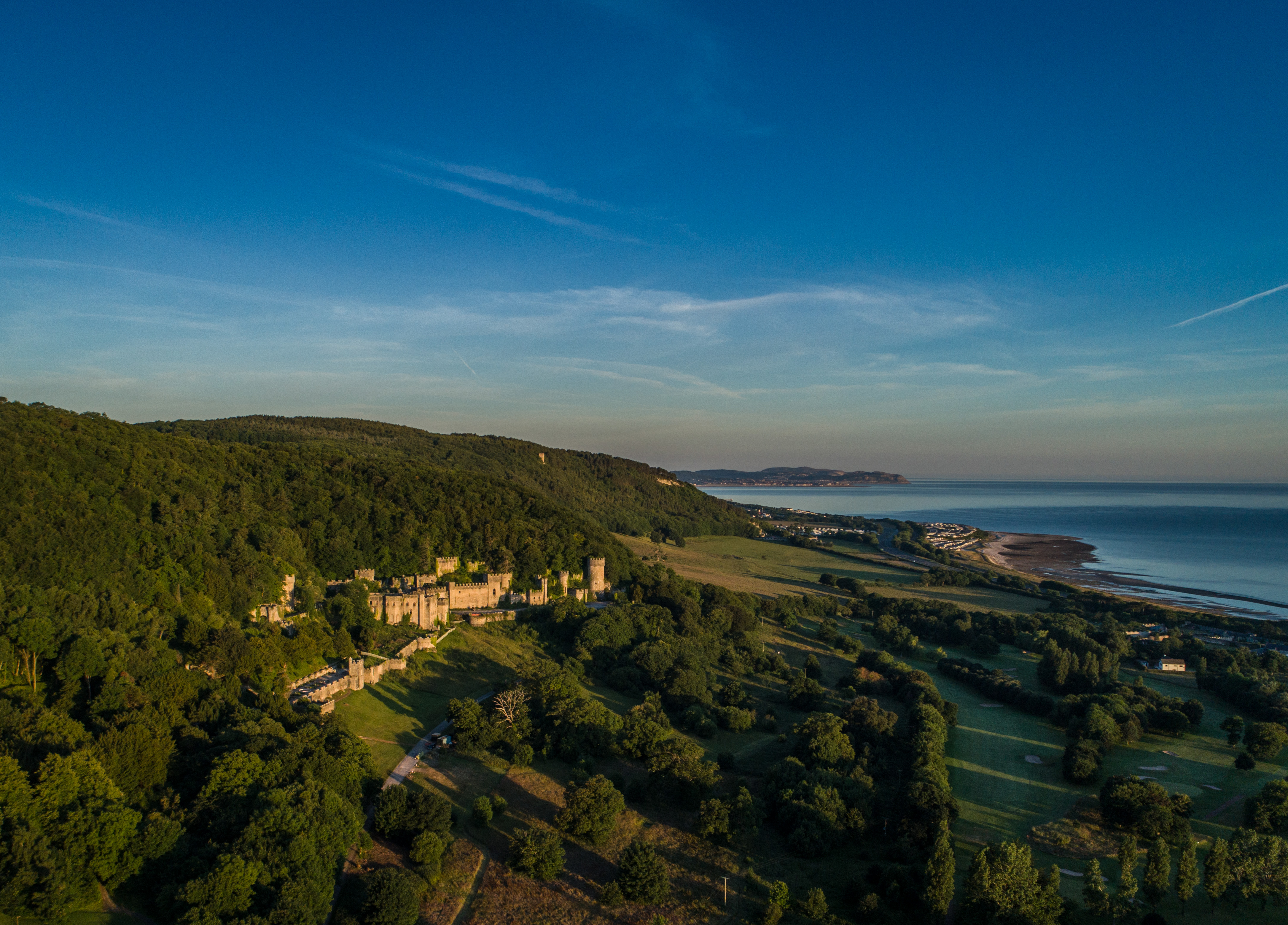 One of the largest castle’s in Britain - built on ancient foundations the castle was rebuilt from 1810 onwards